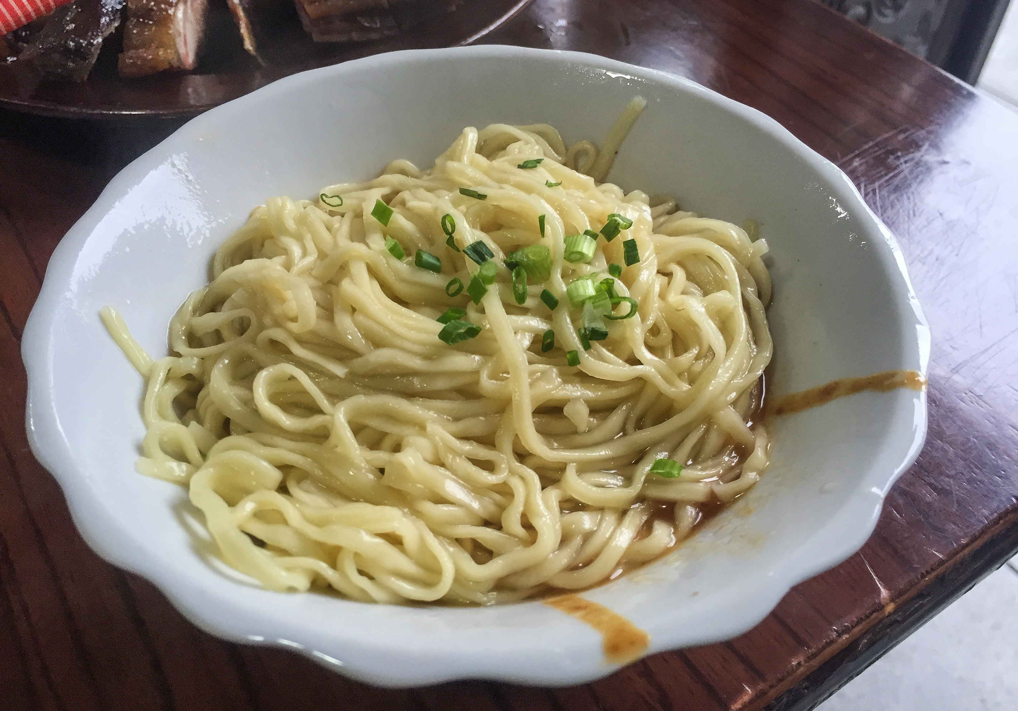 Yes, it was eaten in Sha County.